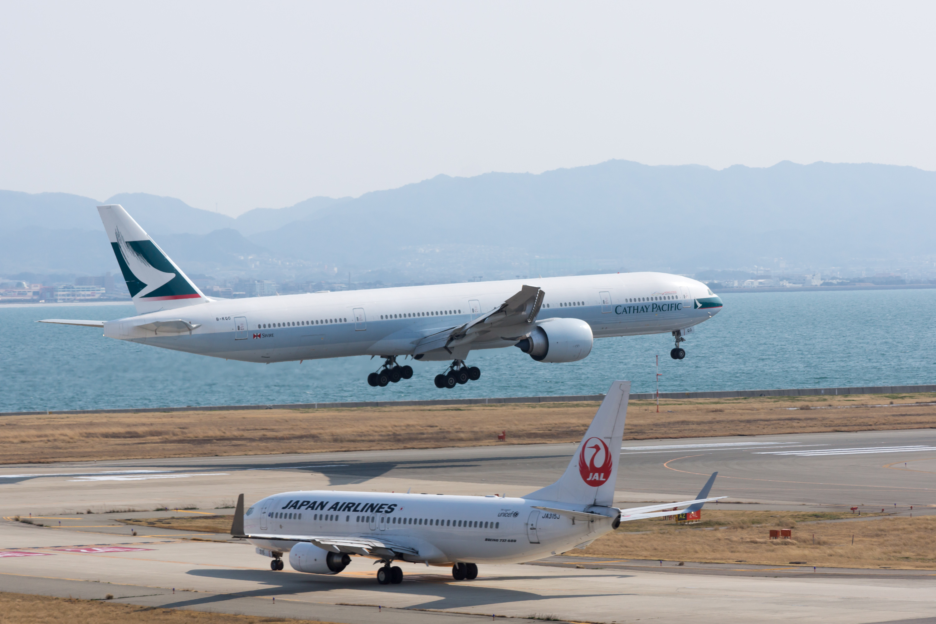 Cathay Pacific Boeing 777-367(ER)